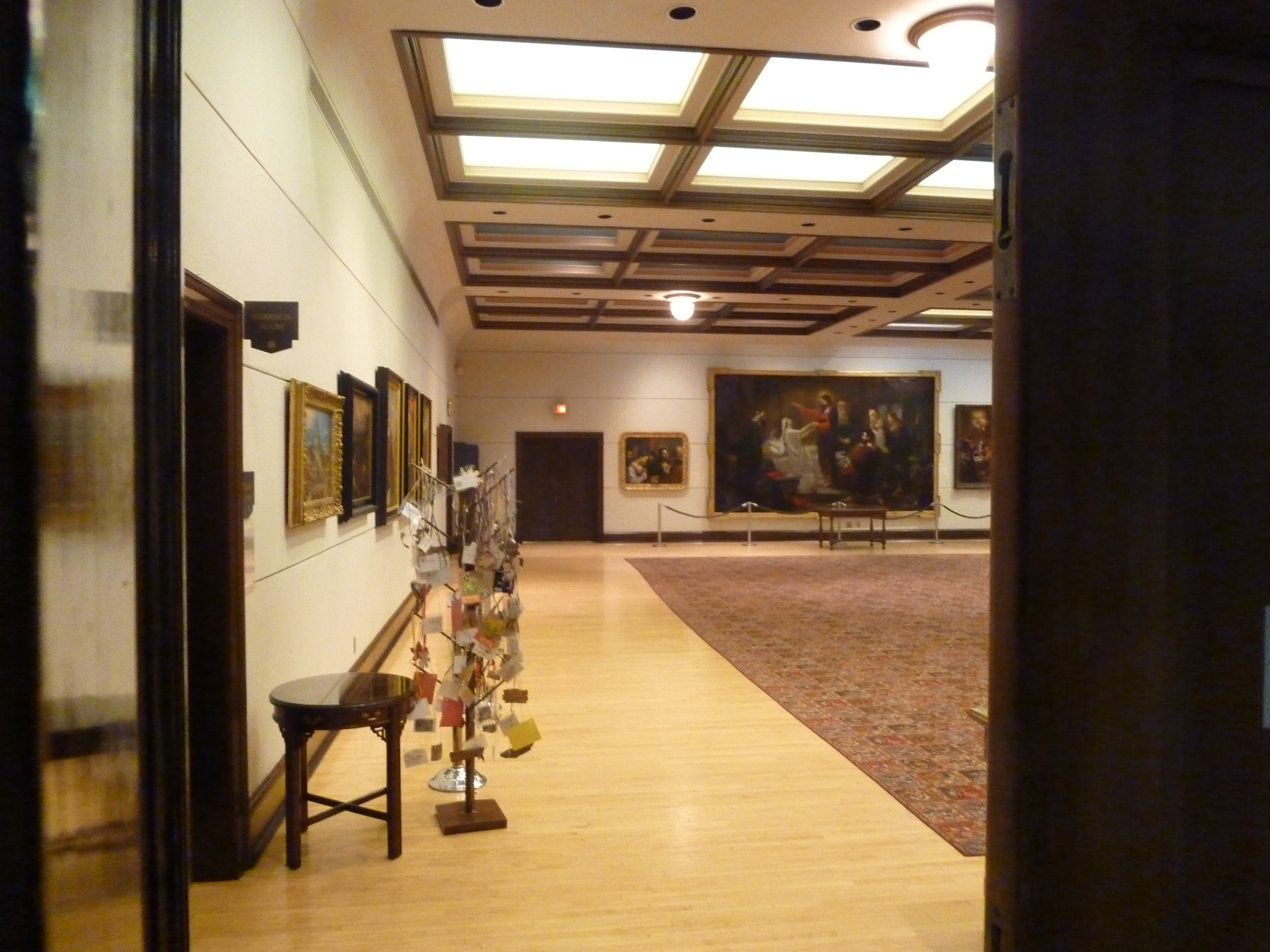 The Art Gallery of Hennepin Avenue United Methodist Church in Minneapolis contains several works donated by T. B. Walker to decorate the Sunday school.